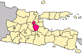 Mojokerto county in East Java province, Indonesia